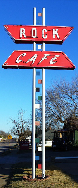 Rock Cafe Sign in Stroud, Oklahoma. Historic Rock Café on Route 66 in Stroud, listed on the National Register of Historic Places in 2001. The original 1936-1939 construction of this restaurant pre-dated rock and roll (a term coined by broadcaster Alan Freed circa-1951); this building is the "Rock Café" because its outer walls are constructed from local fieldstone.